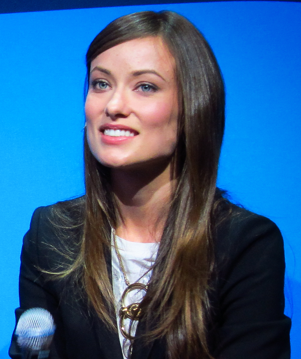 Olivia Wilde on The Insider, at the 2011 Consumer Electronics Show.